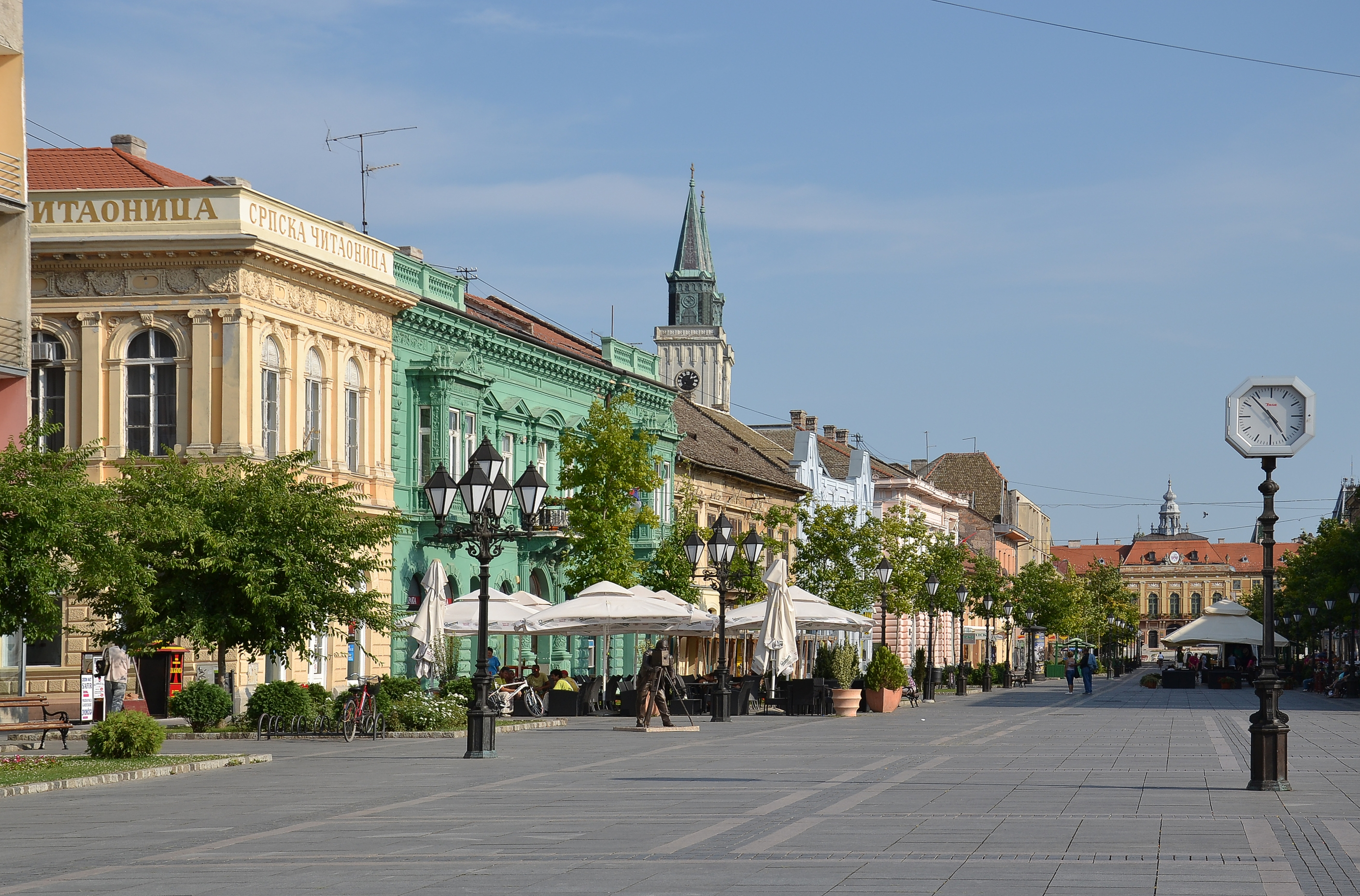 Sombor (Zombor) - Vojvodina. Main street